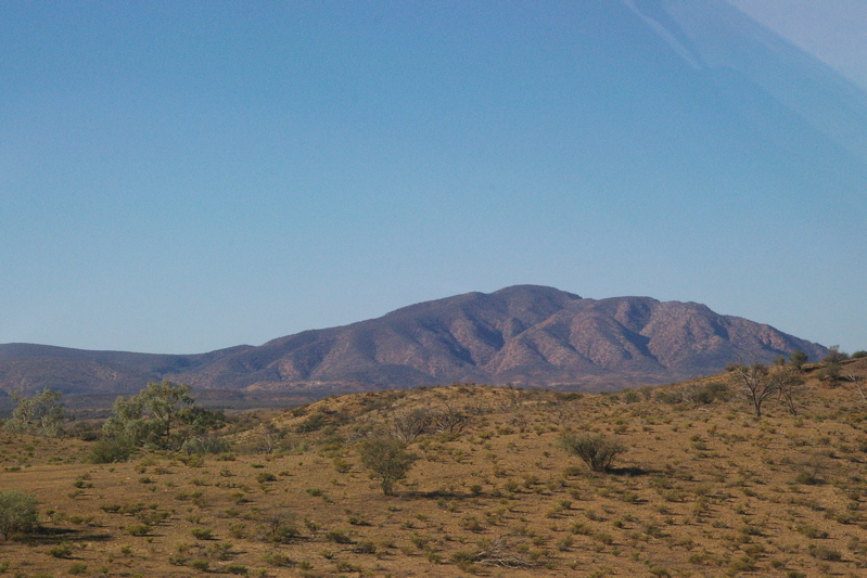 Mount McKinlay from the south, Gammon Ranges, South Australia. Taken by myself.